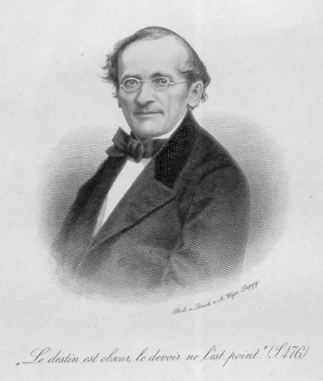 Depicted person: Maximilian Perty – German naturalist